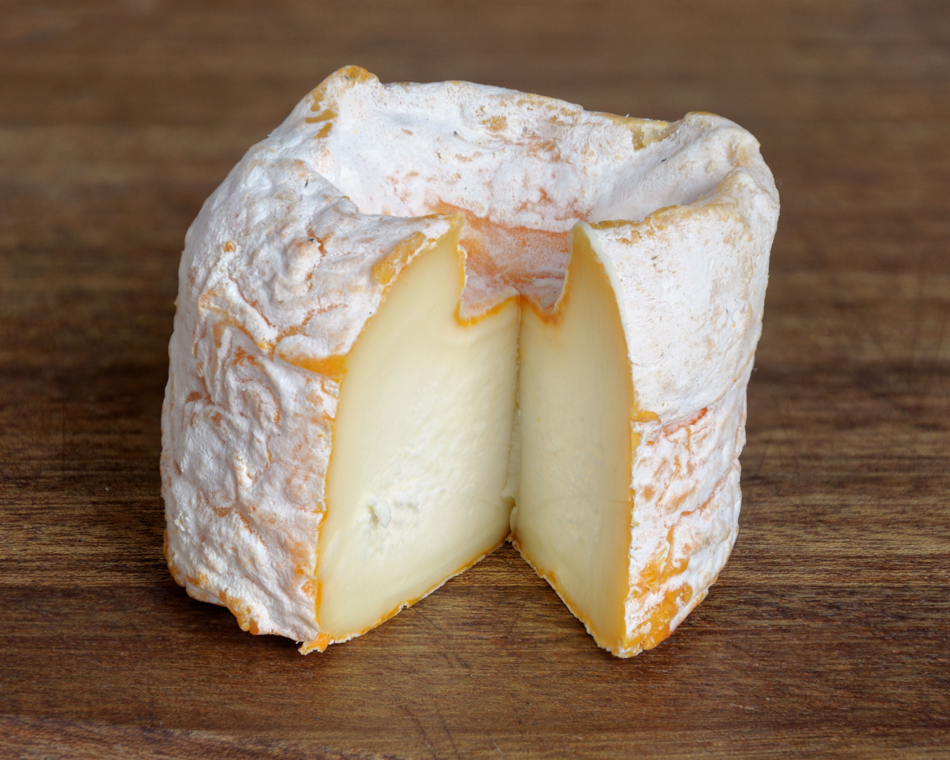 Langres cheese is a French cheese from the region of Champagne-Ardenne, labelled Protected Designation of Origin (PDO).